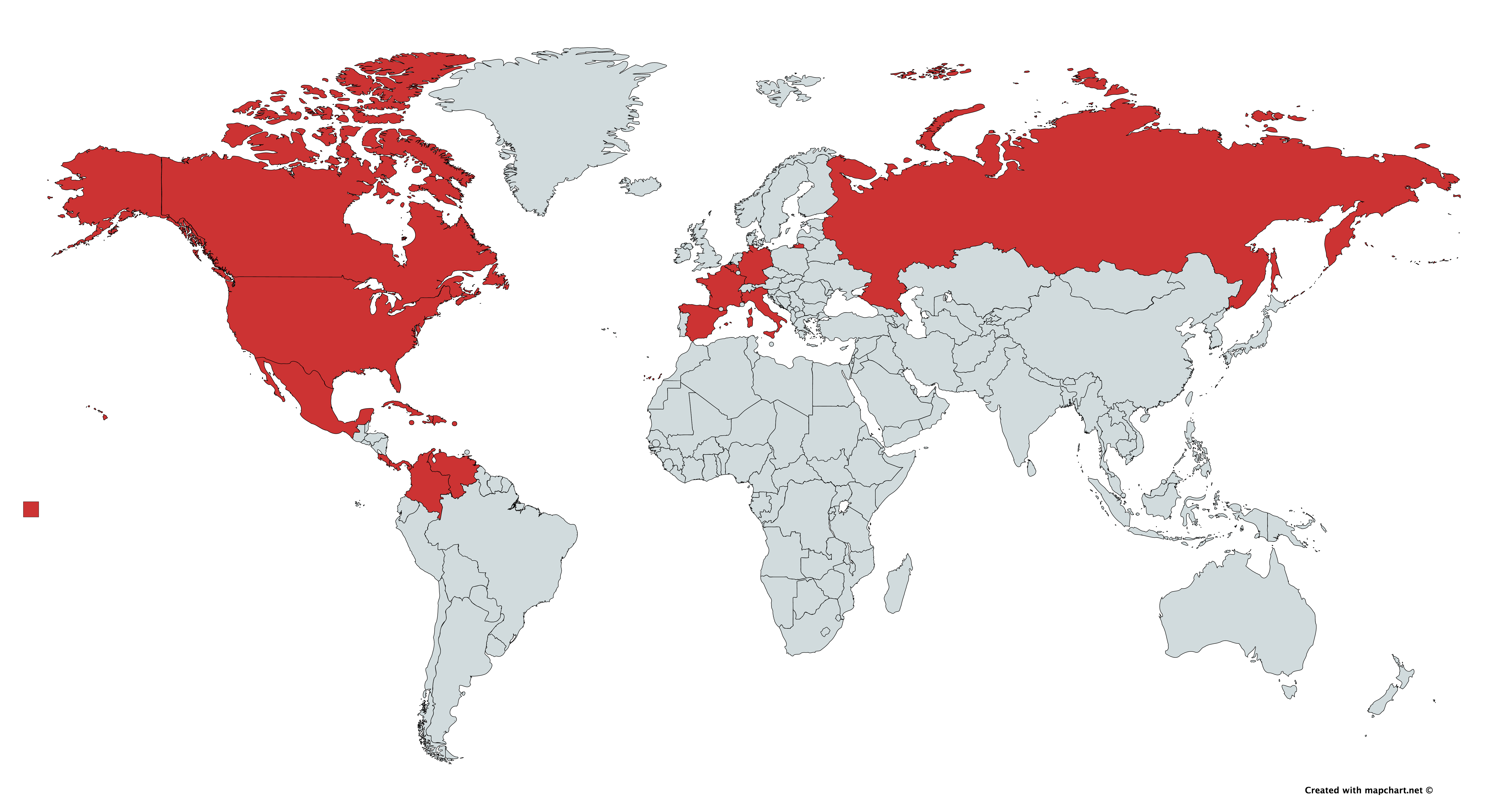 Countries served from SDQ in 2020.